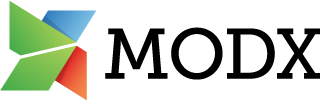 MODX logos are distinctive graphic renditions. You may use the MODX logos in a blog or news article, publication, book or other online or offline medium, or on your website in reference to the respective MODX product, without our written consent, provided that the logos are duplicated exactly as shown in the preceding link without alteration, and the ® symbol (or the ™ symbol, as applicable) attached to the shoulder of the logo as in the attached link is retained. All other usages of the MODX logos require written approval.